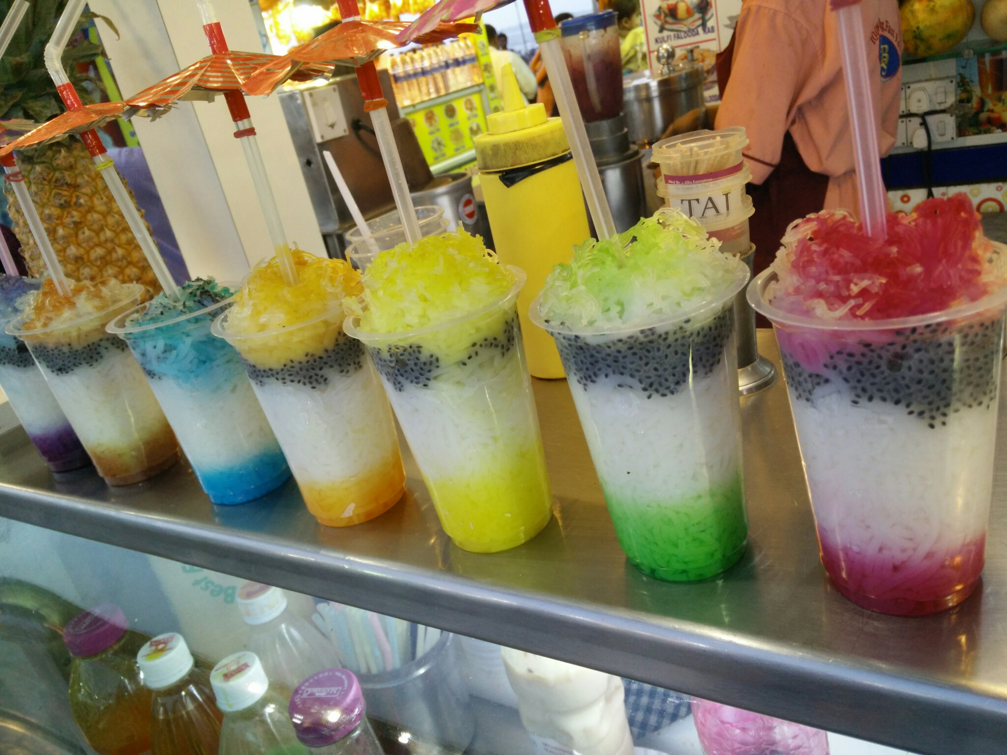 Faluda at Juhu Beach, Mumbai ગુજરાતી: જુહુ બીચ પર મળતો ફાલુદા